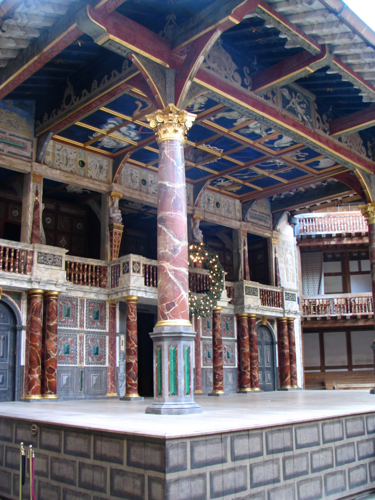 taken by User:Tebbetts Category:Images of London